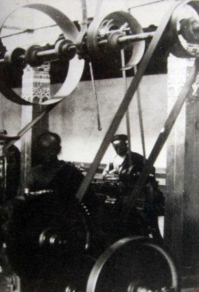 Trabshi Lekhung, Tibetan Government Mint, Lhasa, Tibet in 1933